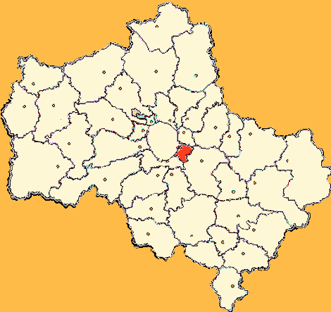 Moscow Region map by Al Silonov